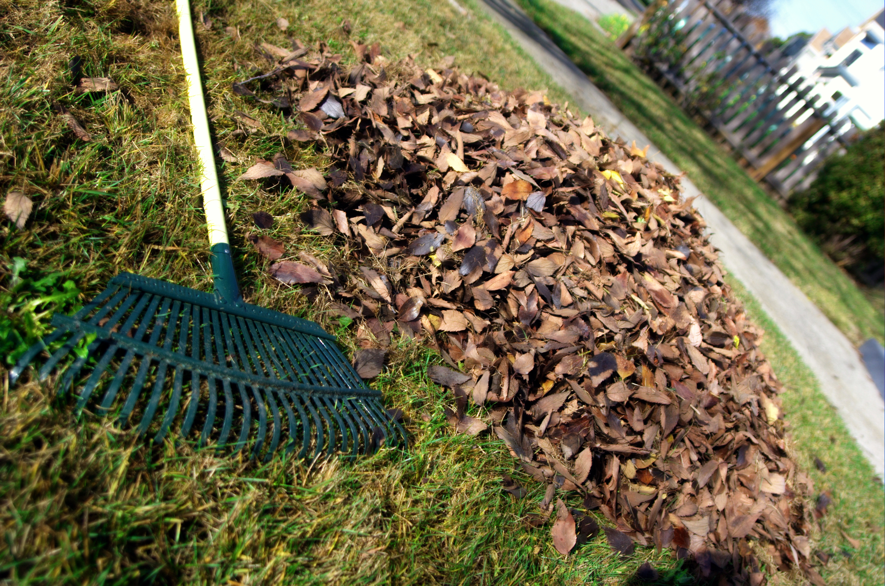 A leaf rake and a pile of leaves in autumn. – A Sisyphean task if there ever was one.